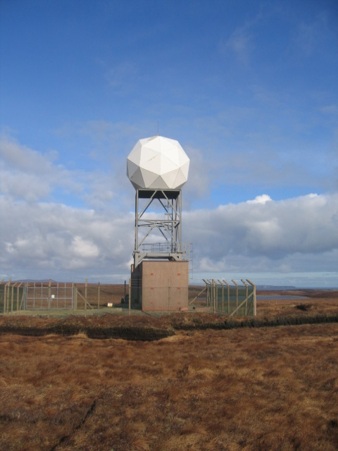 Weather Radar Equipment Locals call it the Golfball